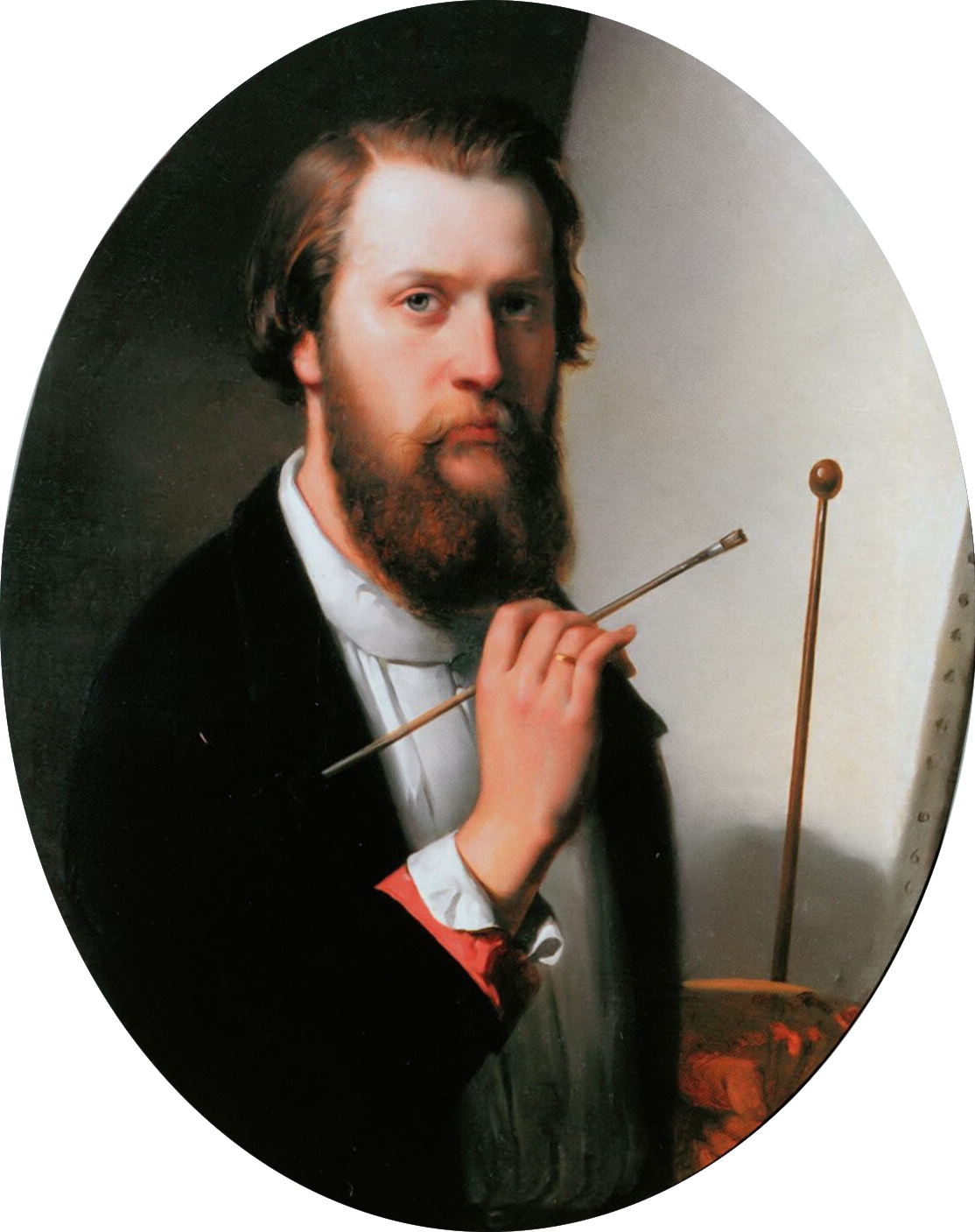 Paul Tetar van Elven oil on canvas ? x ? cm 1850 - 1874